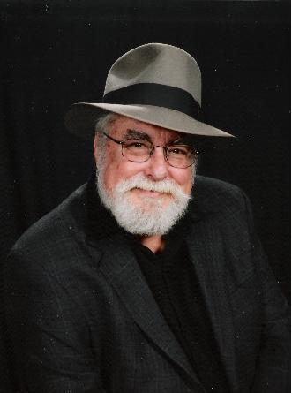 Jim Marrs 2010 PR Picture